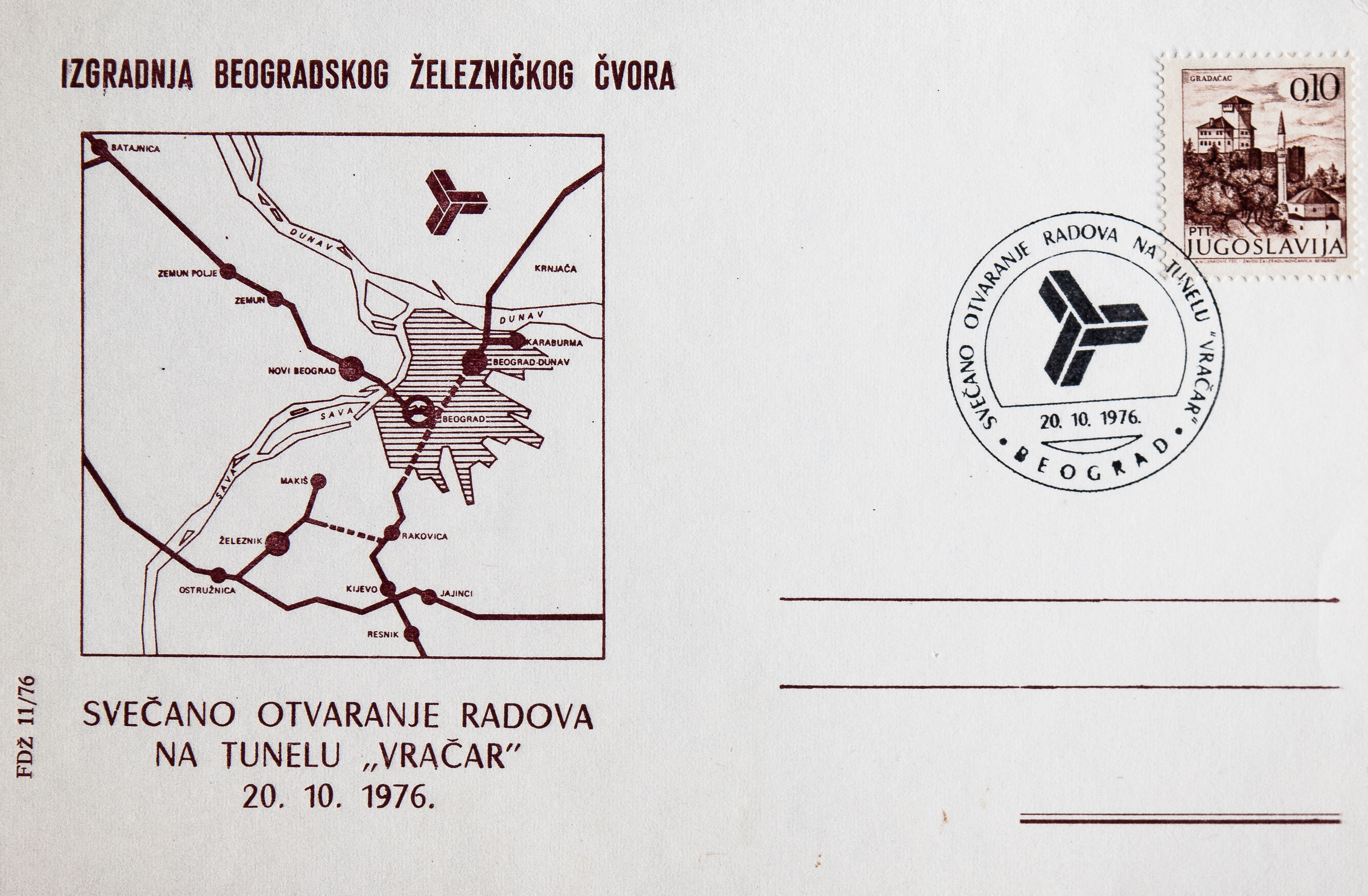 Yugoslavia post stamp for opening of Vračar tunnel, part of Belgrade railway junction